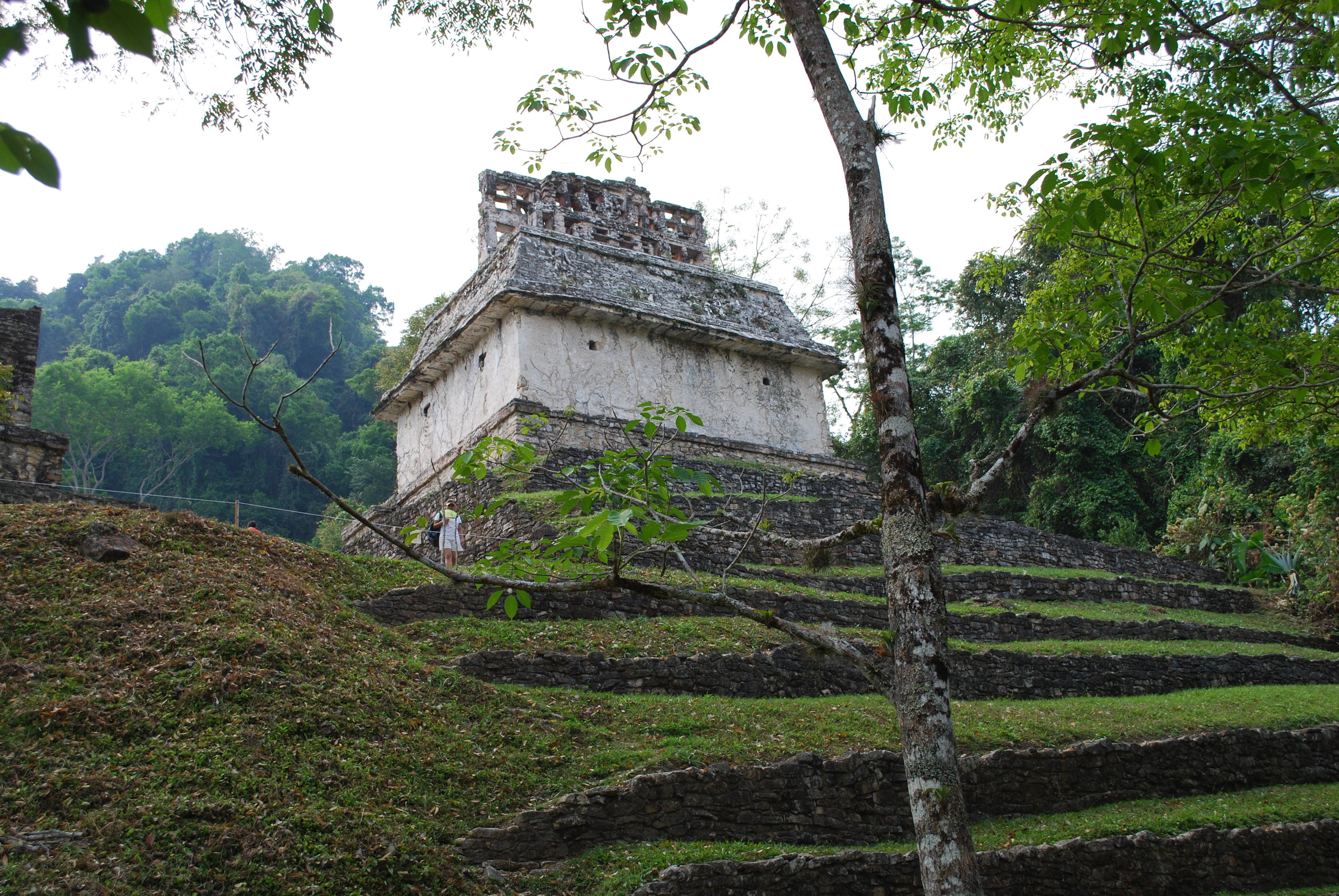 View of the Temple of the Sun from behind at Palenque, Chiapas, Mexico